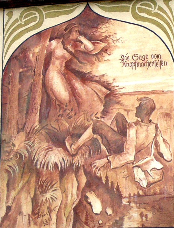 Wall painting by Franz Xaver Bucher (1899-1959) from 1938 at the house "Scharfeck" in Fridingen on the danube (Germany) showing the local legend of the "Knopfmacherfelsen"